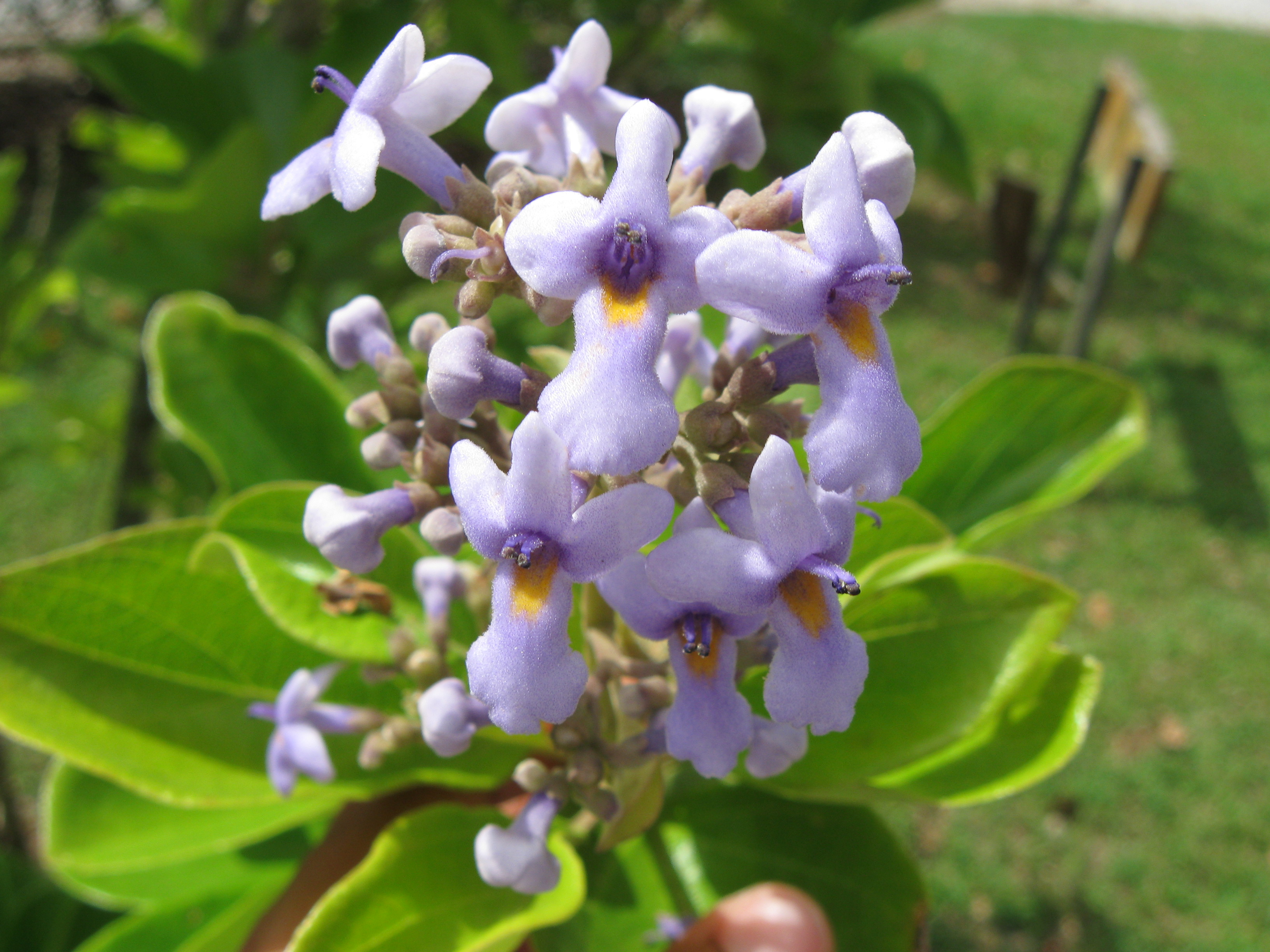 Cornutia obovata common name: Palo de nigua status: Endangered listed on 4/7/1988 Photo by Omar Monsegur